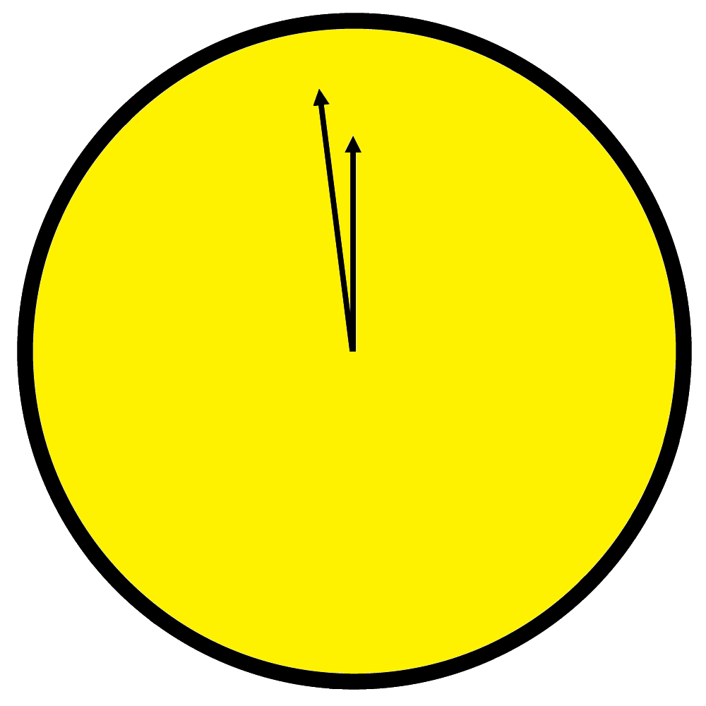 The Doomsday Clock closing in on midnight (as seen in the graphic novel Watchmen).